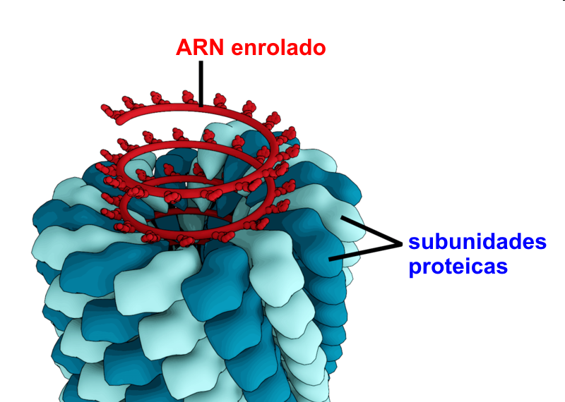 parts of a tobacco mosaic virus